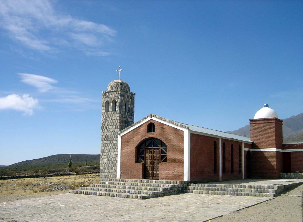 Church in Ampimpa, Amaicha del Valle, Tucumán, Argentina.